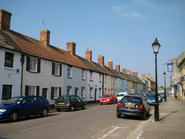 High Street Ilchester Neat pastel-coloured terraced houses line the High Street which runs from West Street to the Market Place.